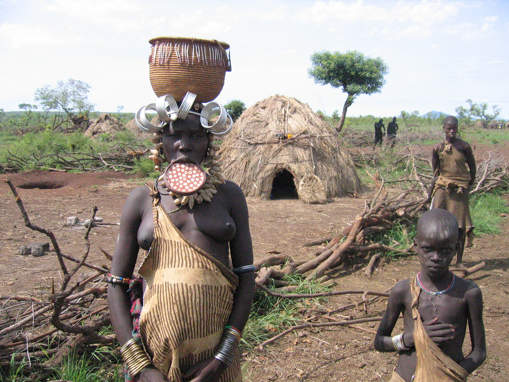 Mursi Tribe (Ethiopia)